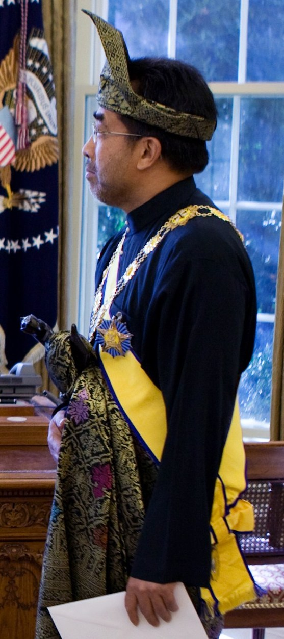 President Barack Obama greets Malaysian Ambassador to the U.S., Jamaluddin Jarjis, during a credentialing ceremony for new ambassadors, in the Oval Office, Nov. 4, 2009. (Official White House Photo by Lawrence Jackson)